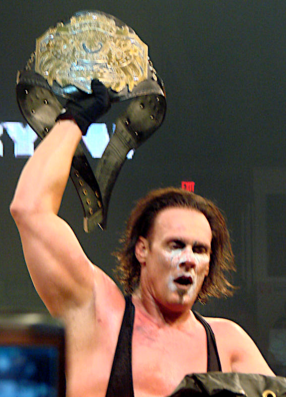 An image of professional wrestler Sting.